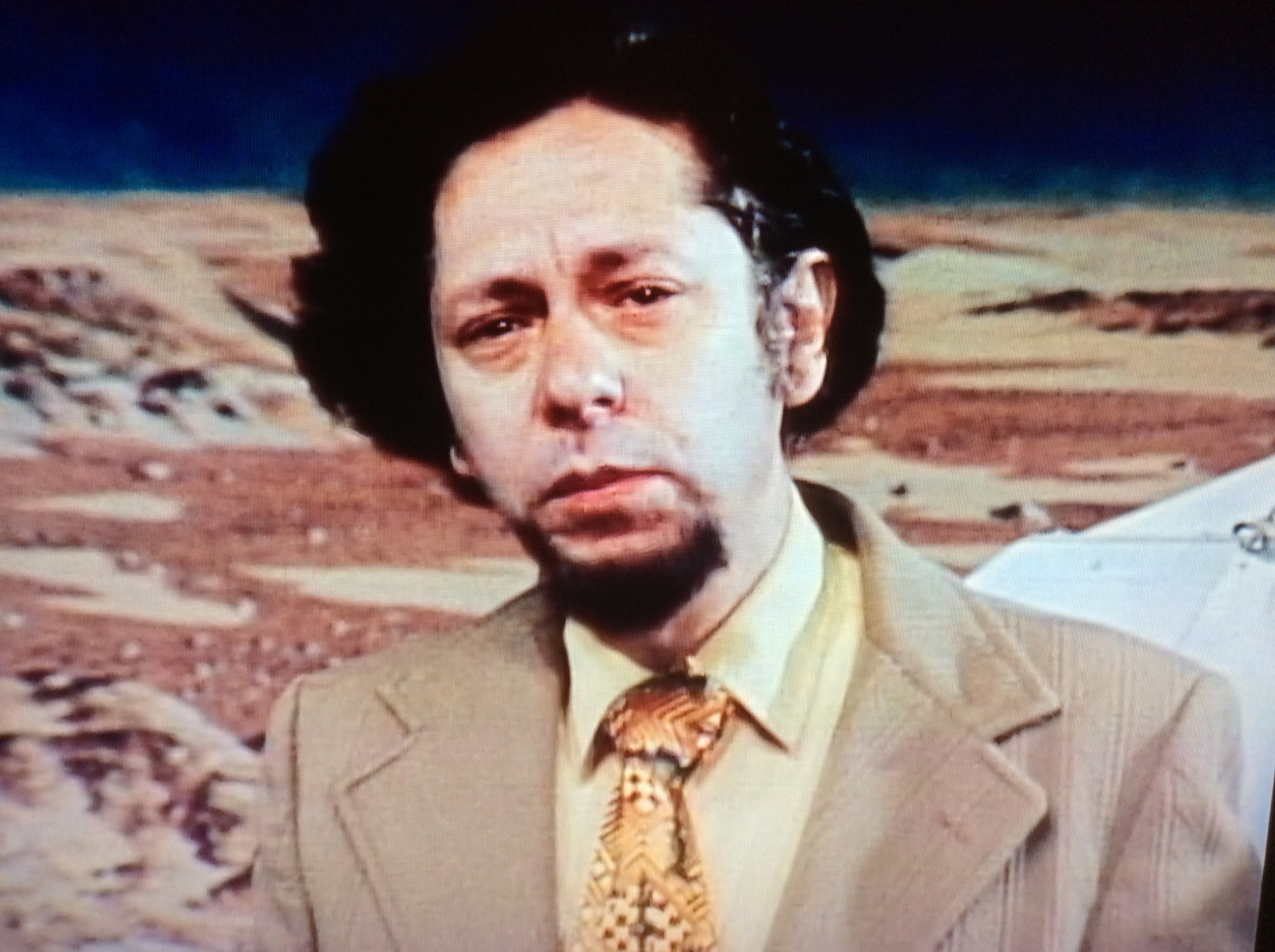 Gerald Soffen as he appeared in 1977 during his appearence on In Search Of...